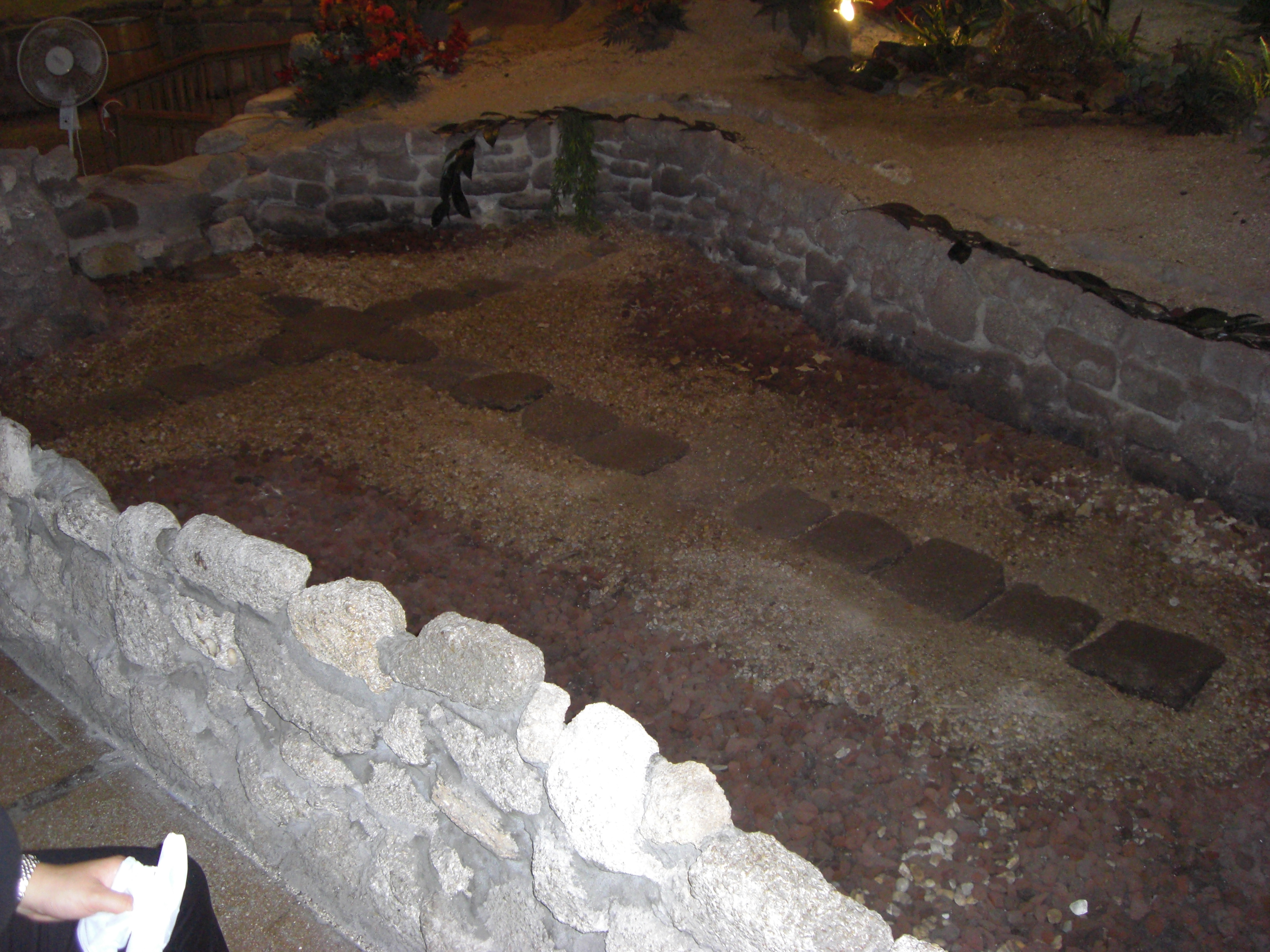 Fountain of Youth Archaeological Park, St. Augustine, Florida, USA